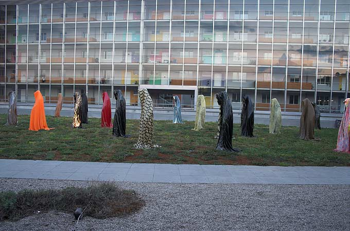 timeguards by Manfred Kielnhofer, Artpark Linz 2008